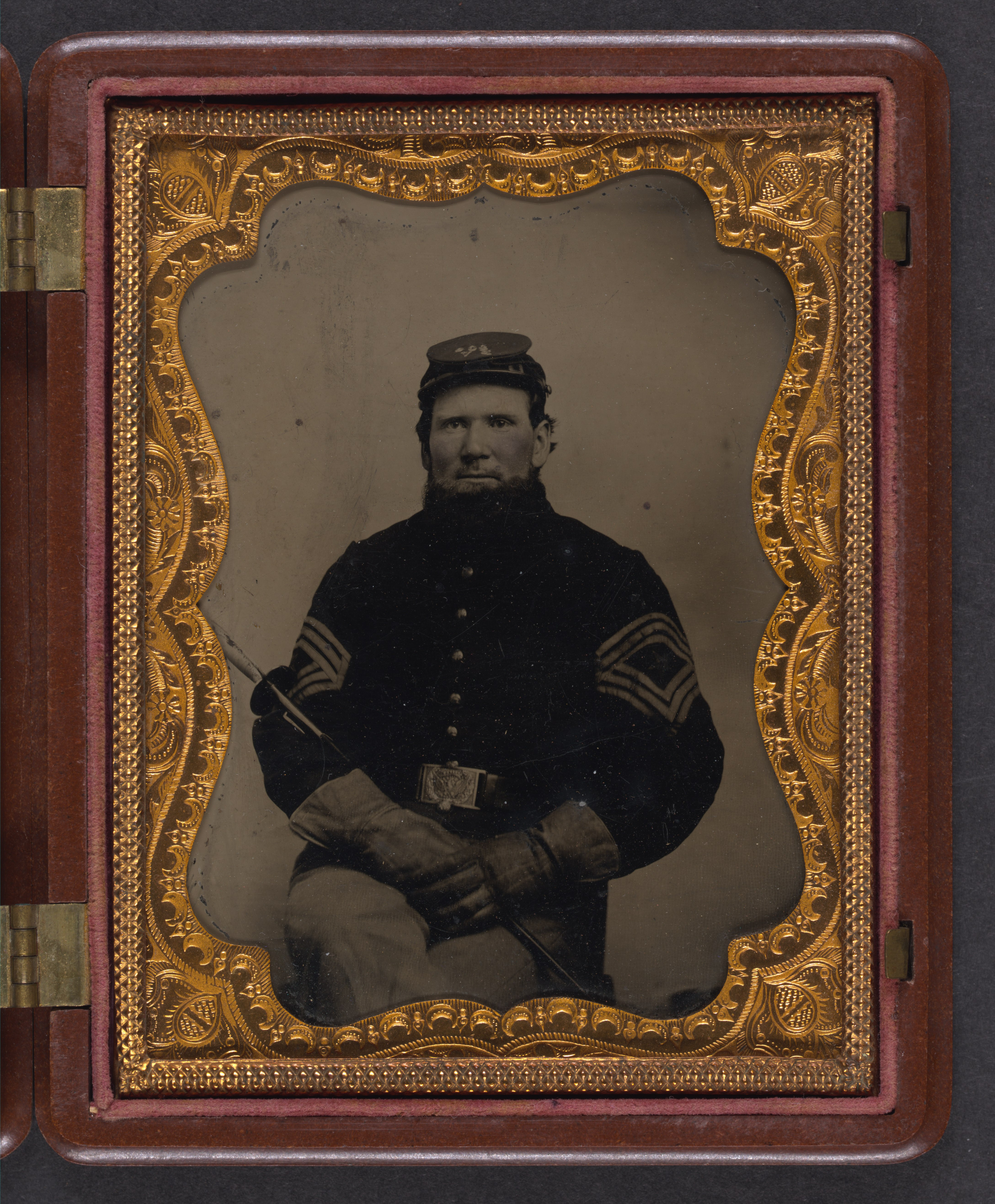 Title: Unidentified soldier in Union sargeant major's uniform with gauntlets and forage cap of the 206th Pennsylvania Volunteers Regiment Abstract/medium: 1 photograph : quarter-plate tintype; 12.5 x 10.2 cm (case)